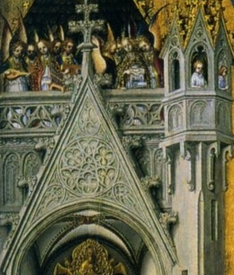 Last Judgement, detail